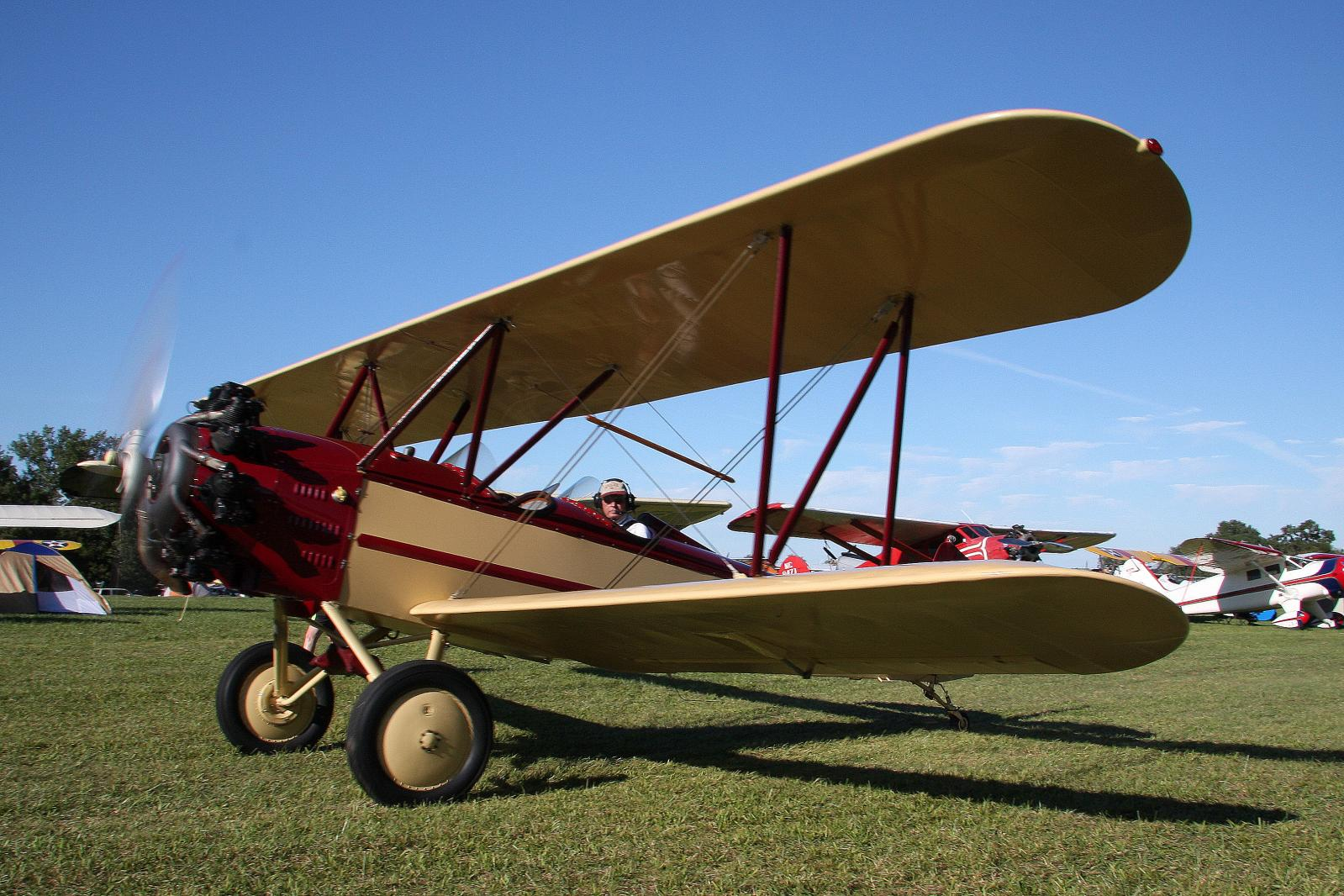 1929 Command-Aire 5C-3 C/N W-136